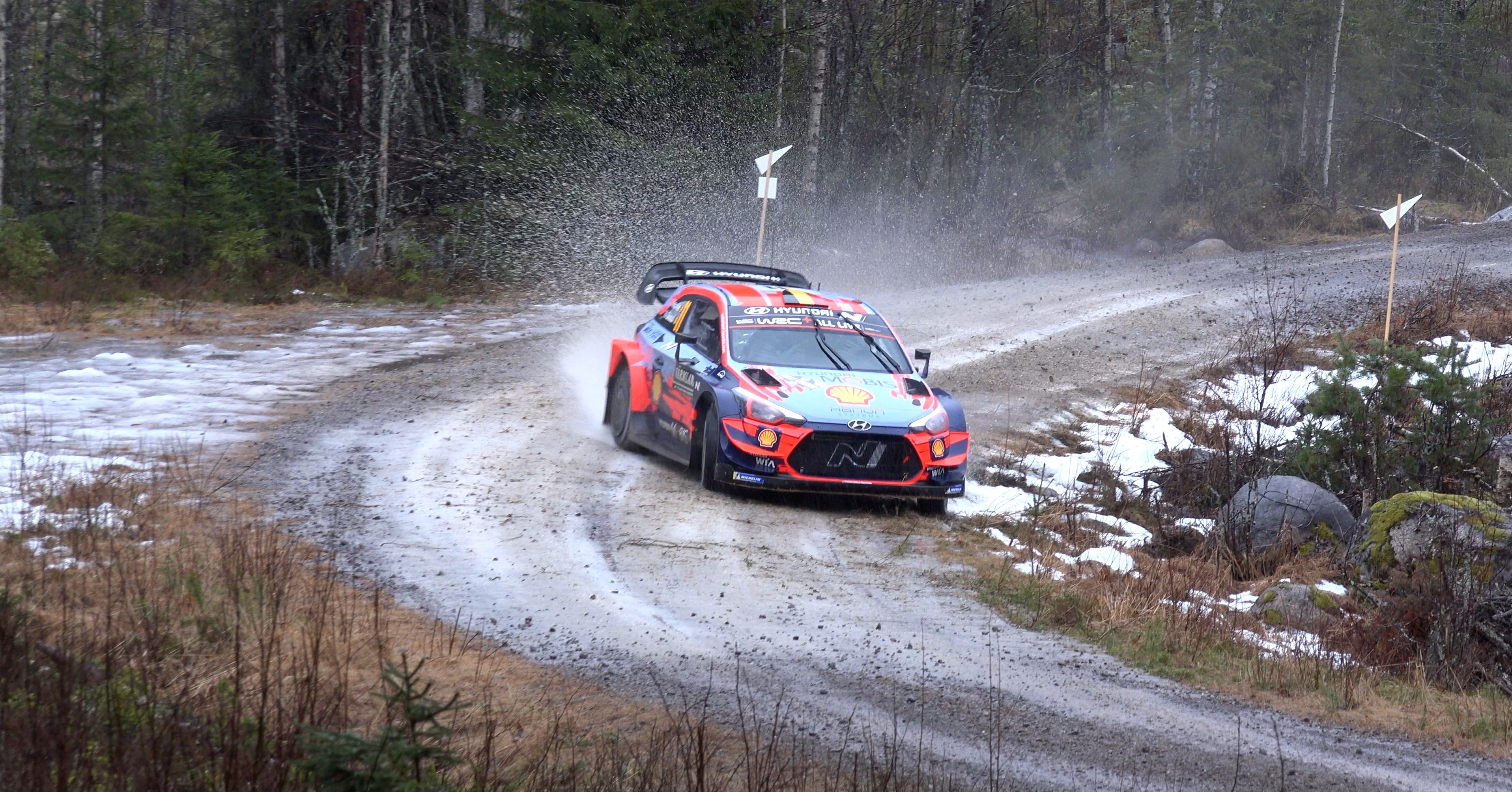 Neuville at Rally Sweden 2020.